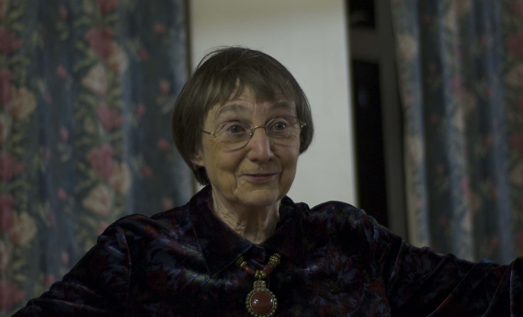 Launch of Michael Standen 's "Start Somewhere" - republished by Shoestring Press.